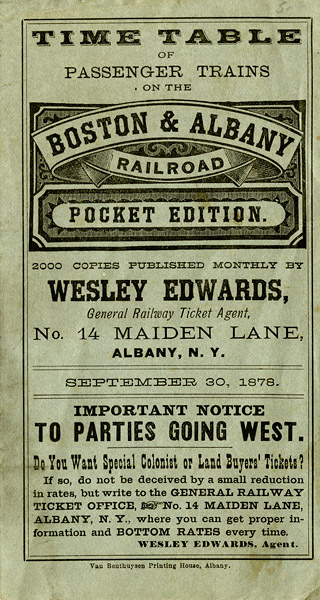 Timetable cover, Boston and Albany Railroad, 1878